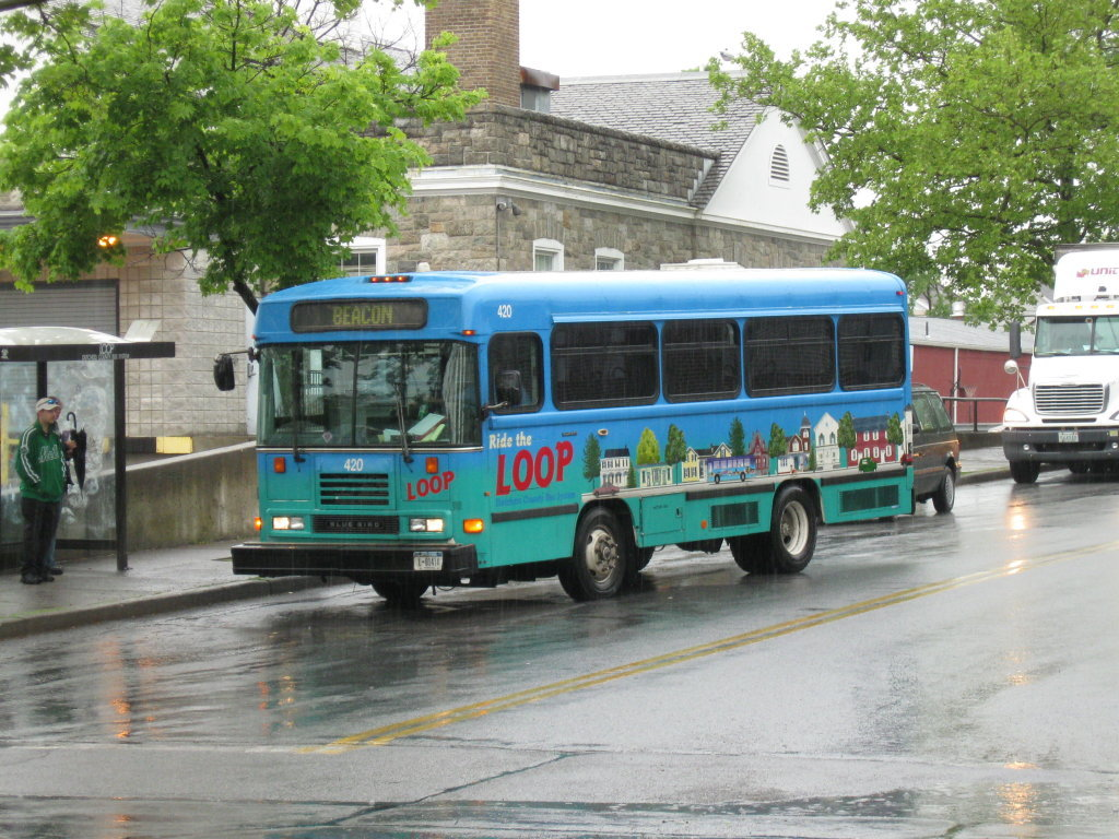 Dutchess County LOOP Blue-Bird CSFE3000 #420 picks up customers by the Beacon Post Office on LOOP 3.